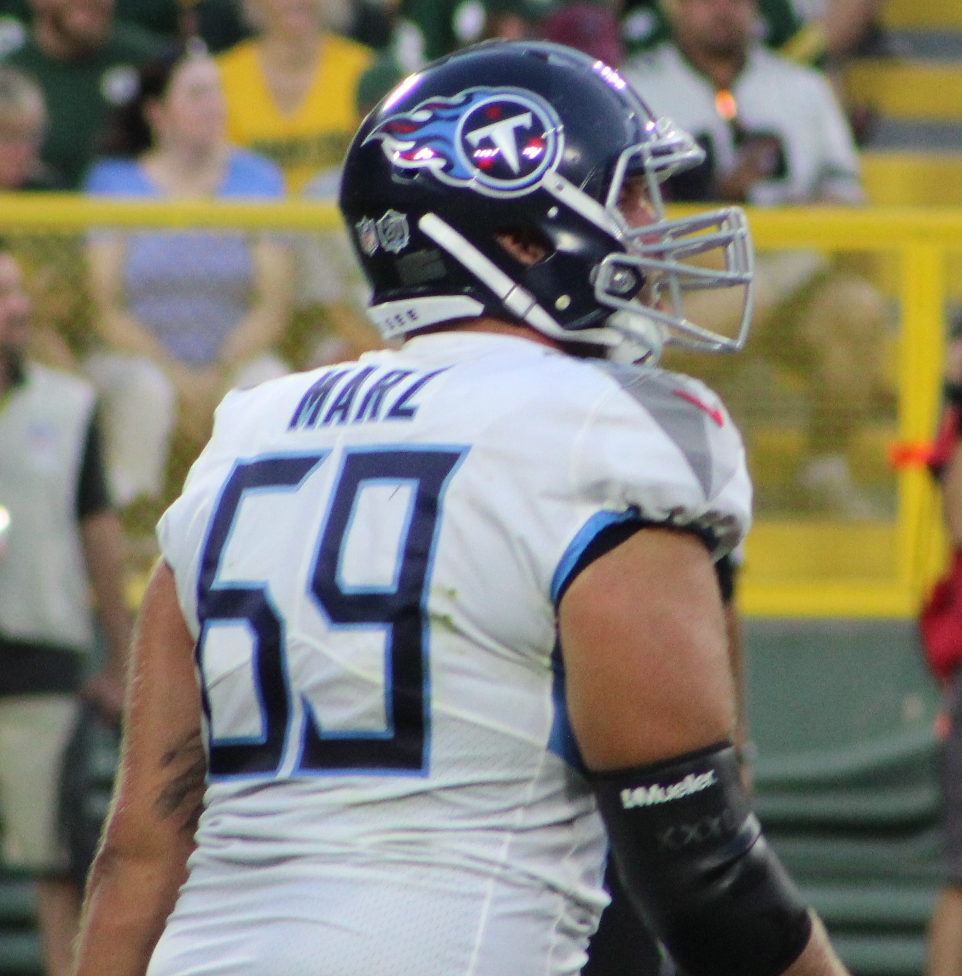 Tyler Marz, Tennessee Titans at Green Bay Packers (Preseason), August 9, 2018